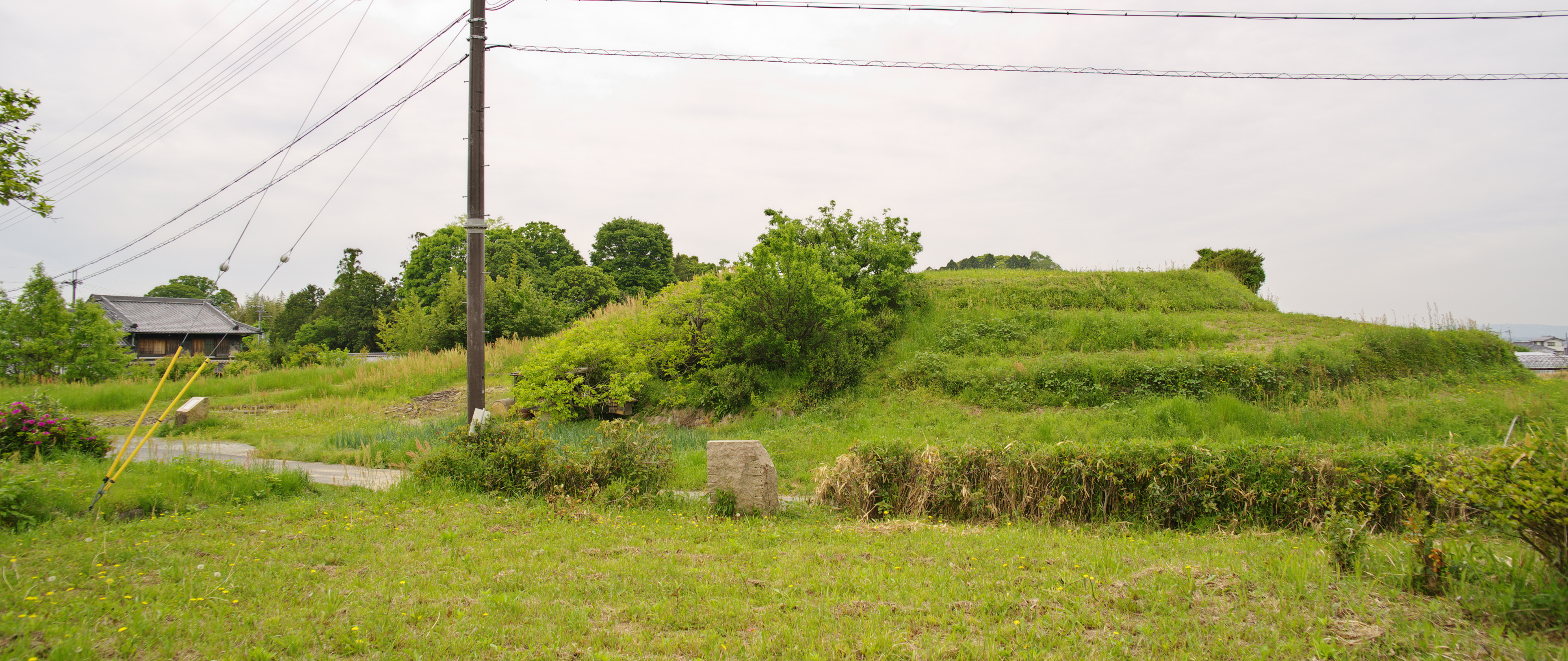 Over all of Hokenoyama Kofun, Sakurai city.